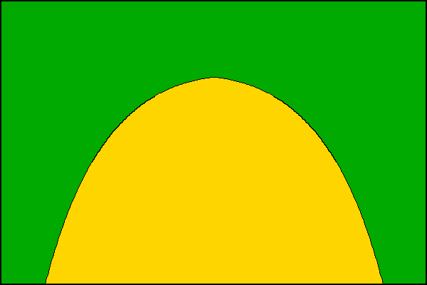 Municipal flag of Krupá , District Rakovník, Czech Republic